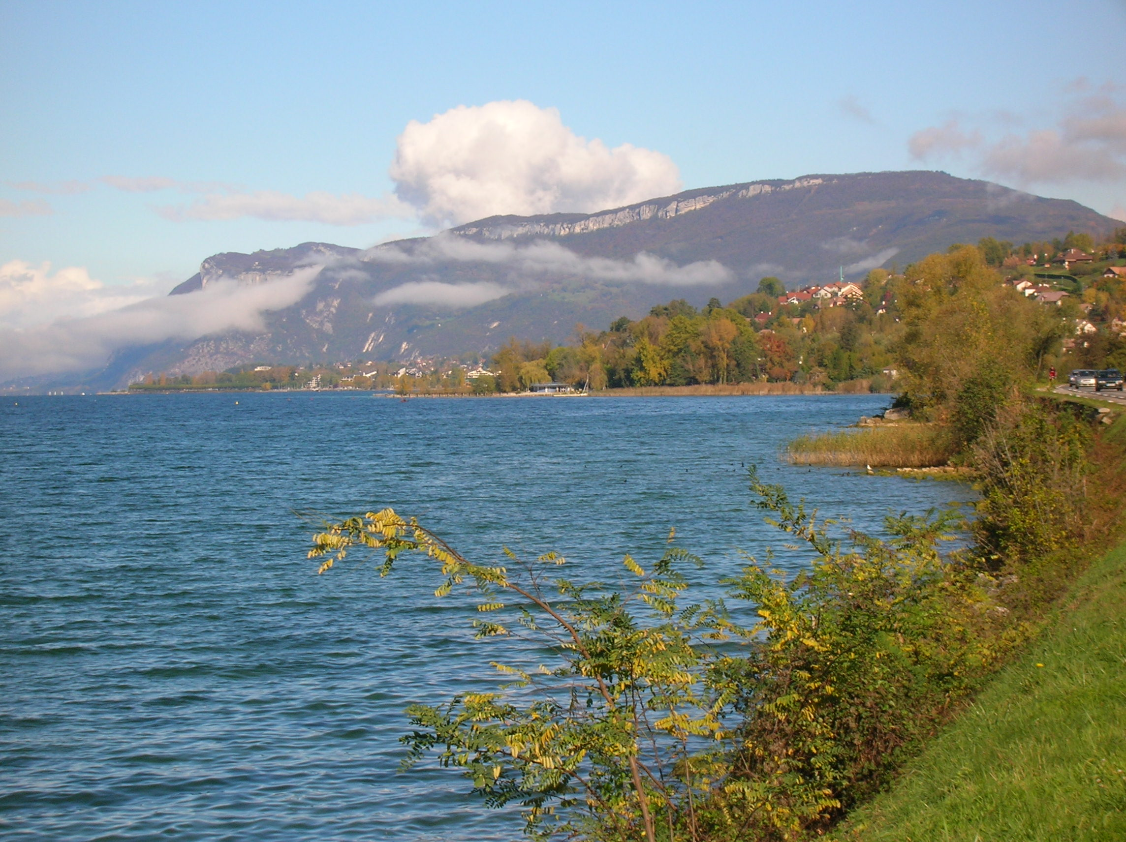 Landscape of Lake of Bourget in Savoy (French Alps)